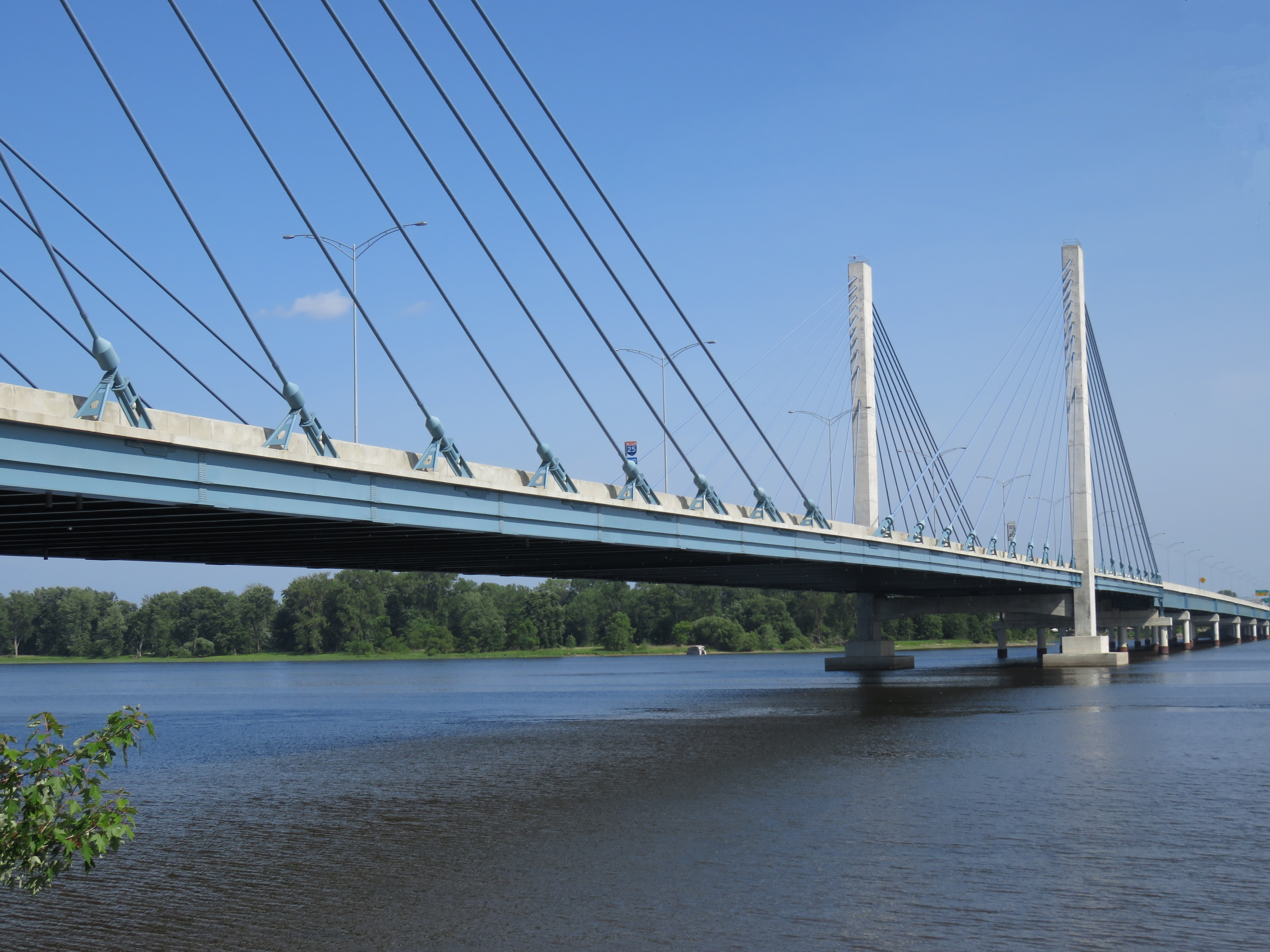 Olivier-Charbonneau Bridge, seen from Laval, Québec, Canada.